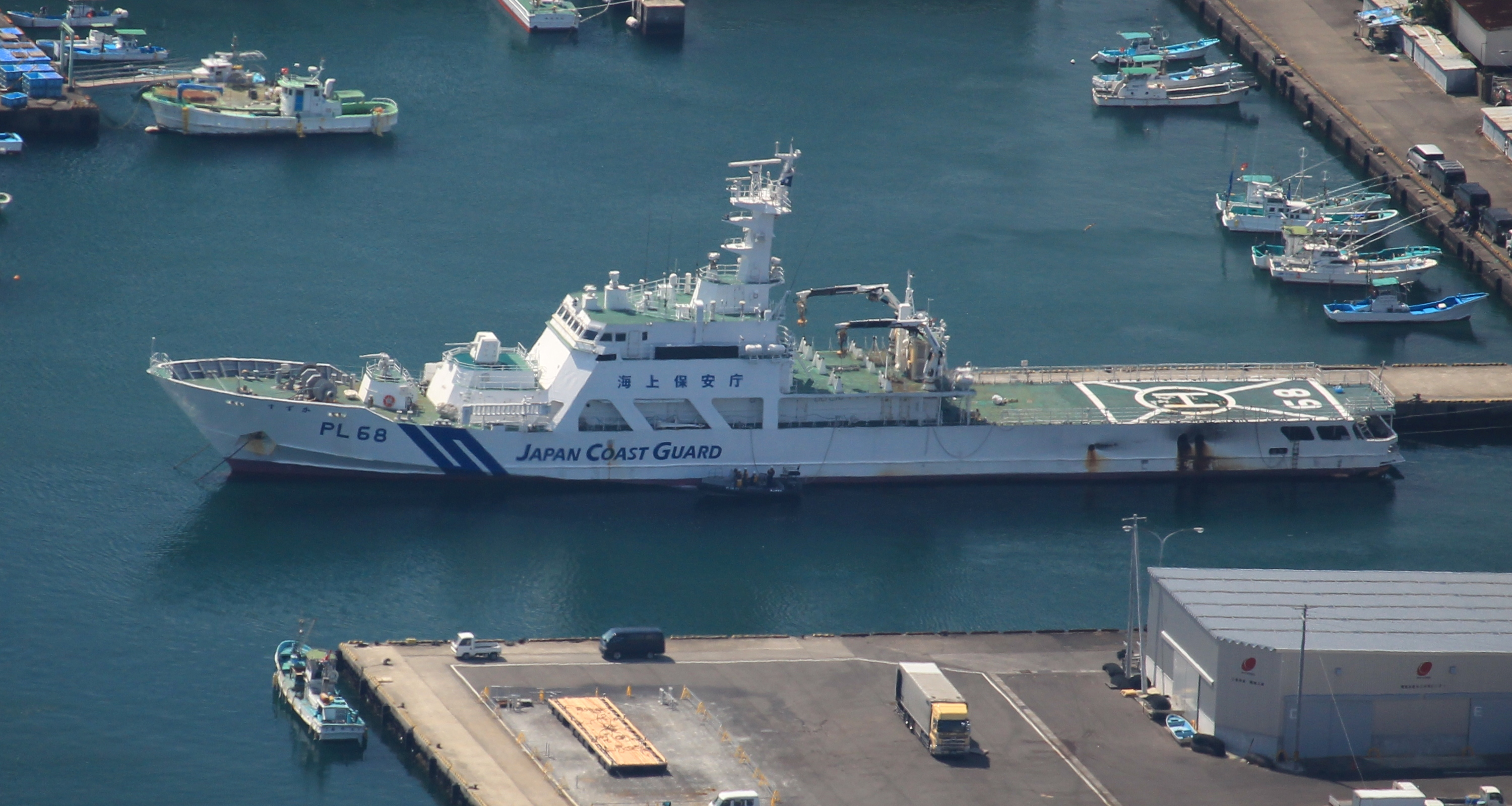 Hateruma class patrol vessel, PL68 Suzuka (ship, 2010) in Port of Owase, seen from Mount Tengura, in Mie prefecture, Japan.